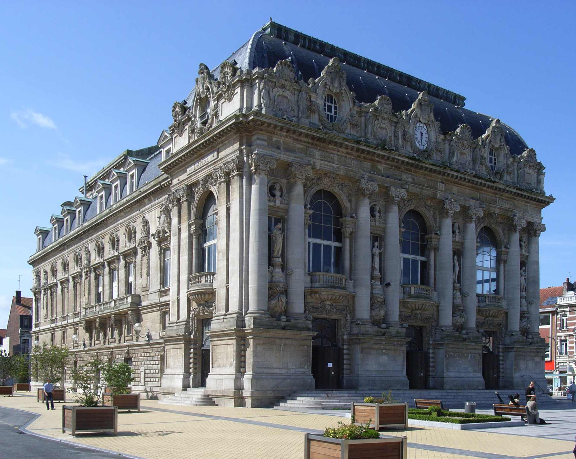 Calais, Theatre, France